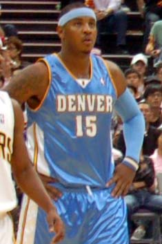 Carmelo Anthony during an NBA preseason game in Taiwan